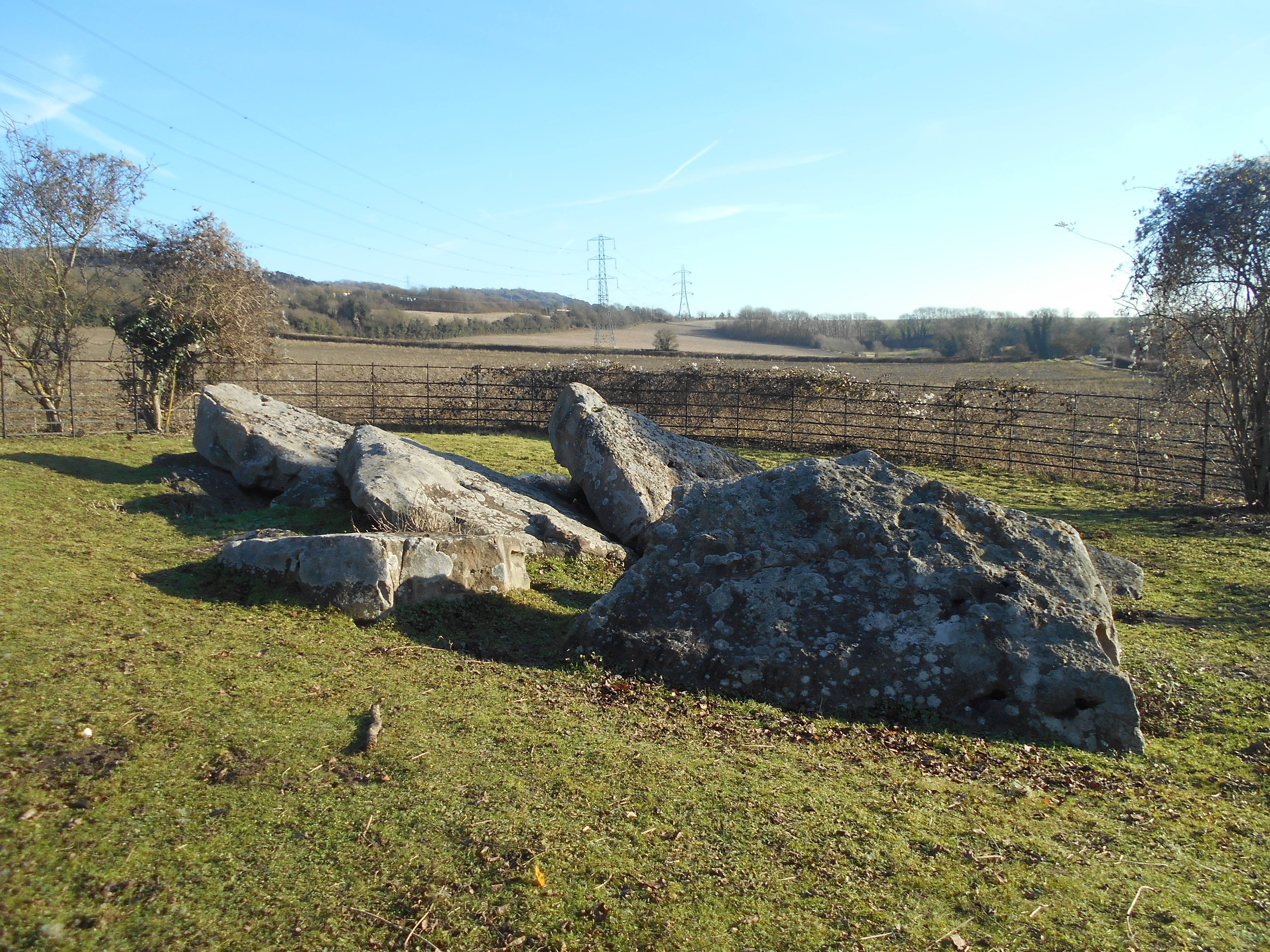 Little Kit's Coty House, near Blue Bell Hill, Kent, England. Remains of a neolithic chambered long barrow.